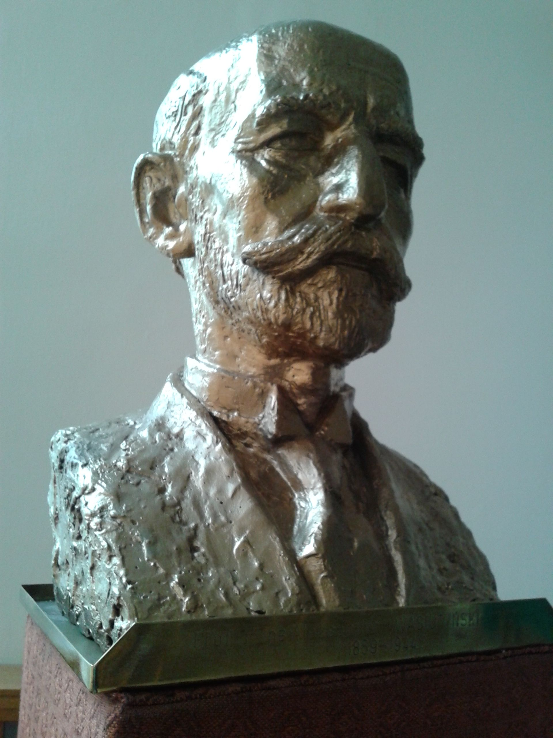 The bust of Aleksander Wasiutyński at Railway Institute in Warsaw.